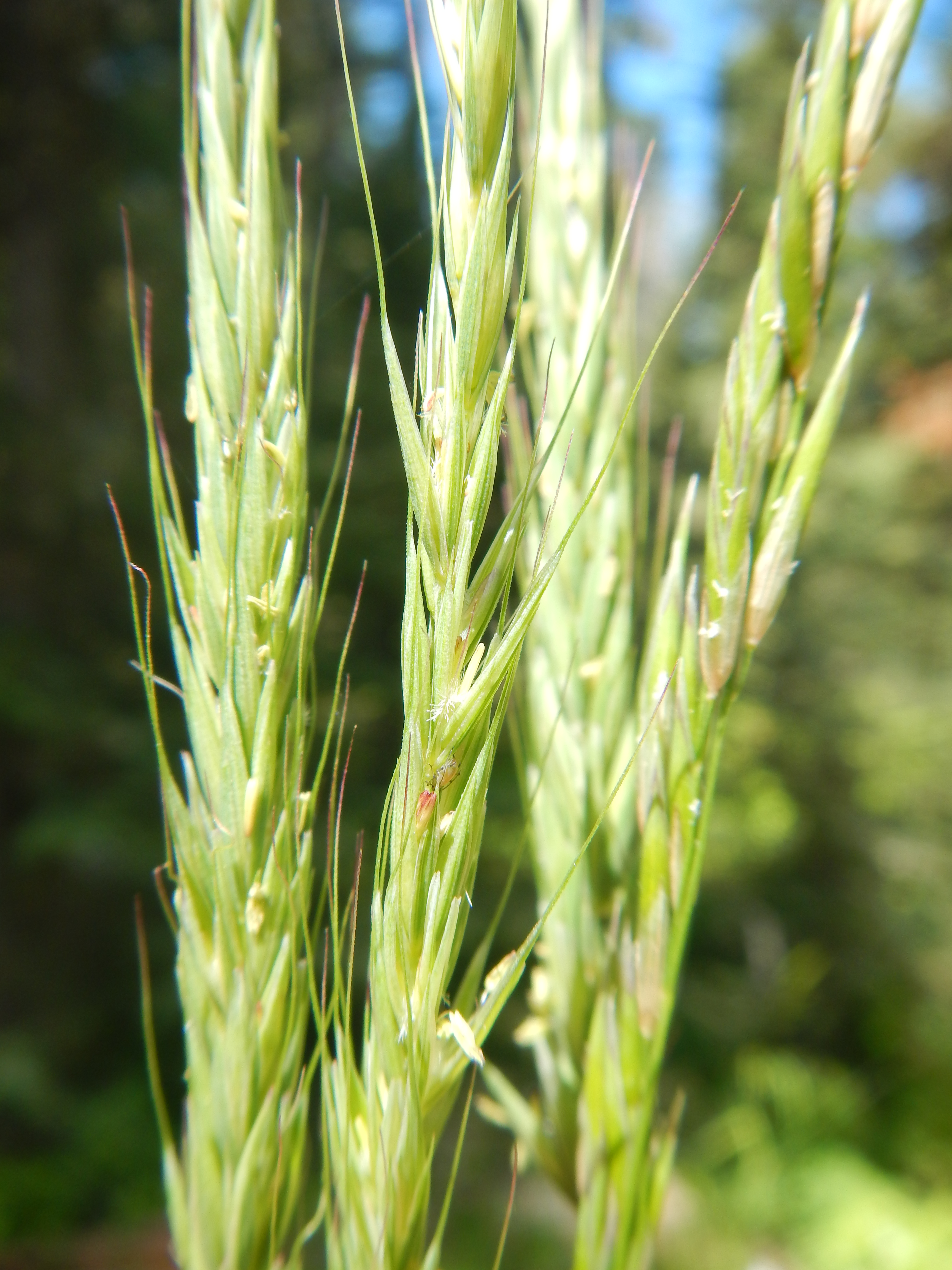 Growing in an understory setting, blue wildrye often is a slender bunchgrass that produces one to few stems per bunch. The spikelets bear awned florets.